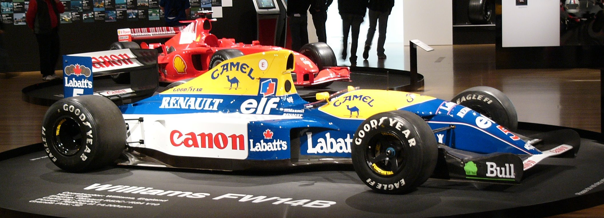 Photos taken at TePapa, Museum of New Zealand, Wellington